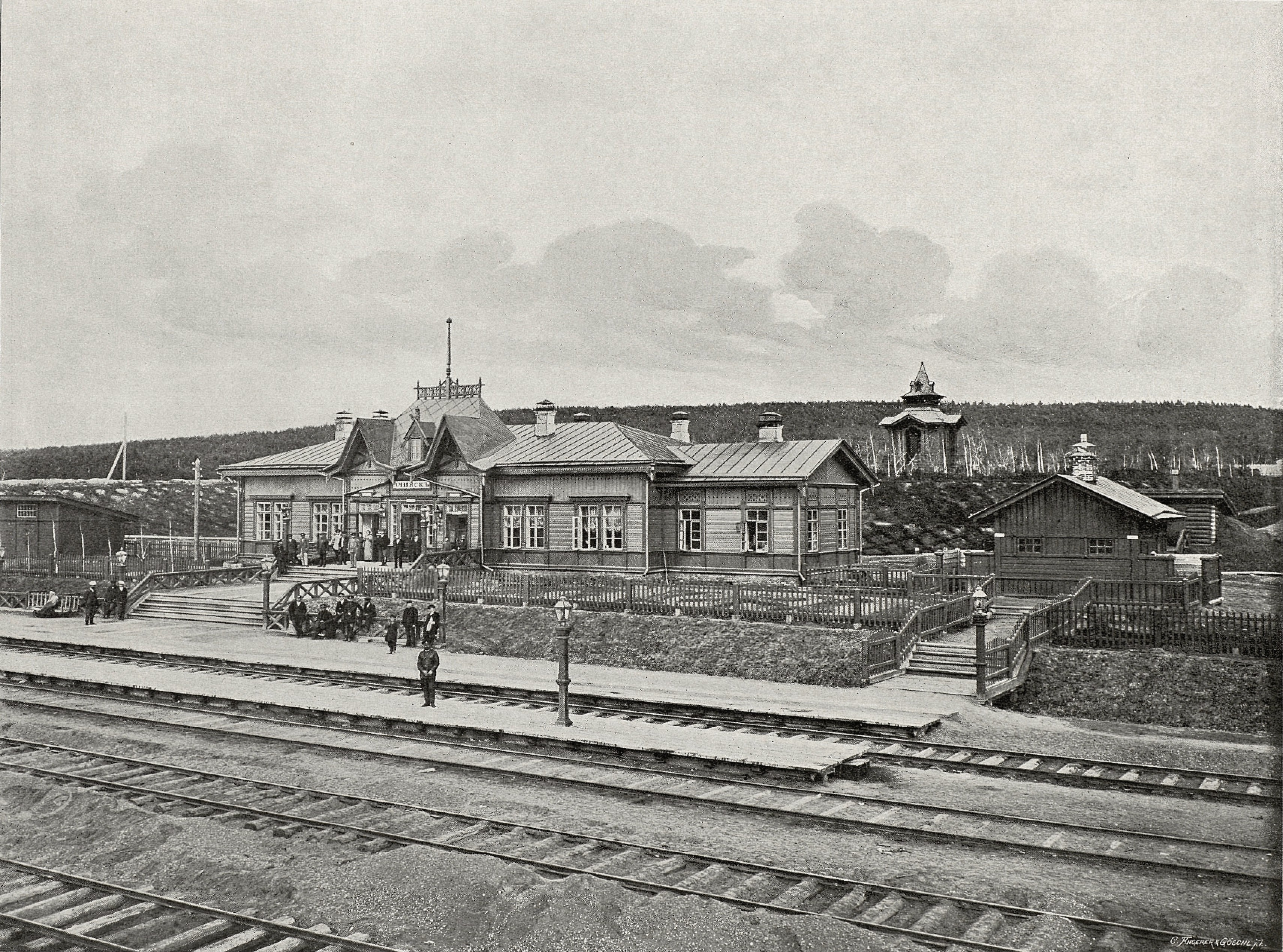 «Great Path - Views of Siberia and Great Siberian Railway» book, 1899